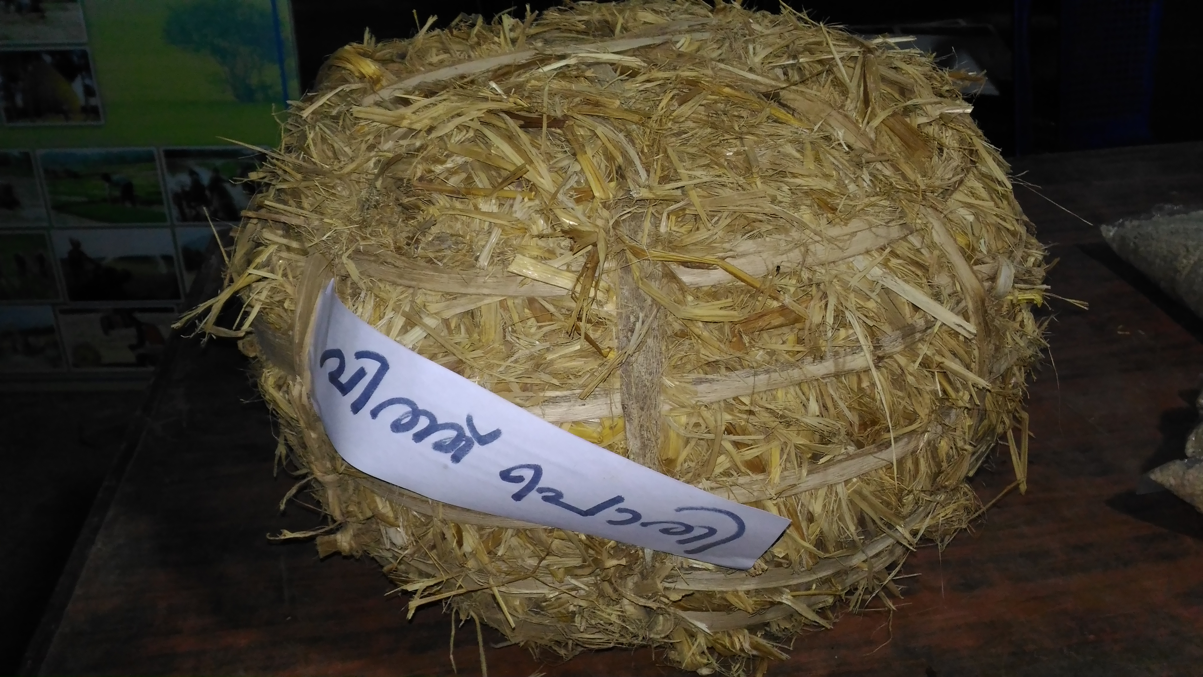 Seeds kept in a packet of hay said as "Vithu Pothi"